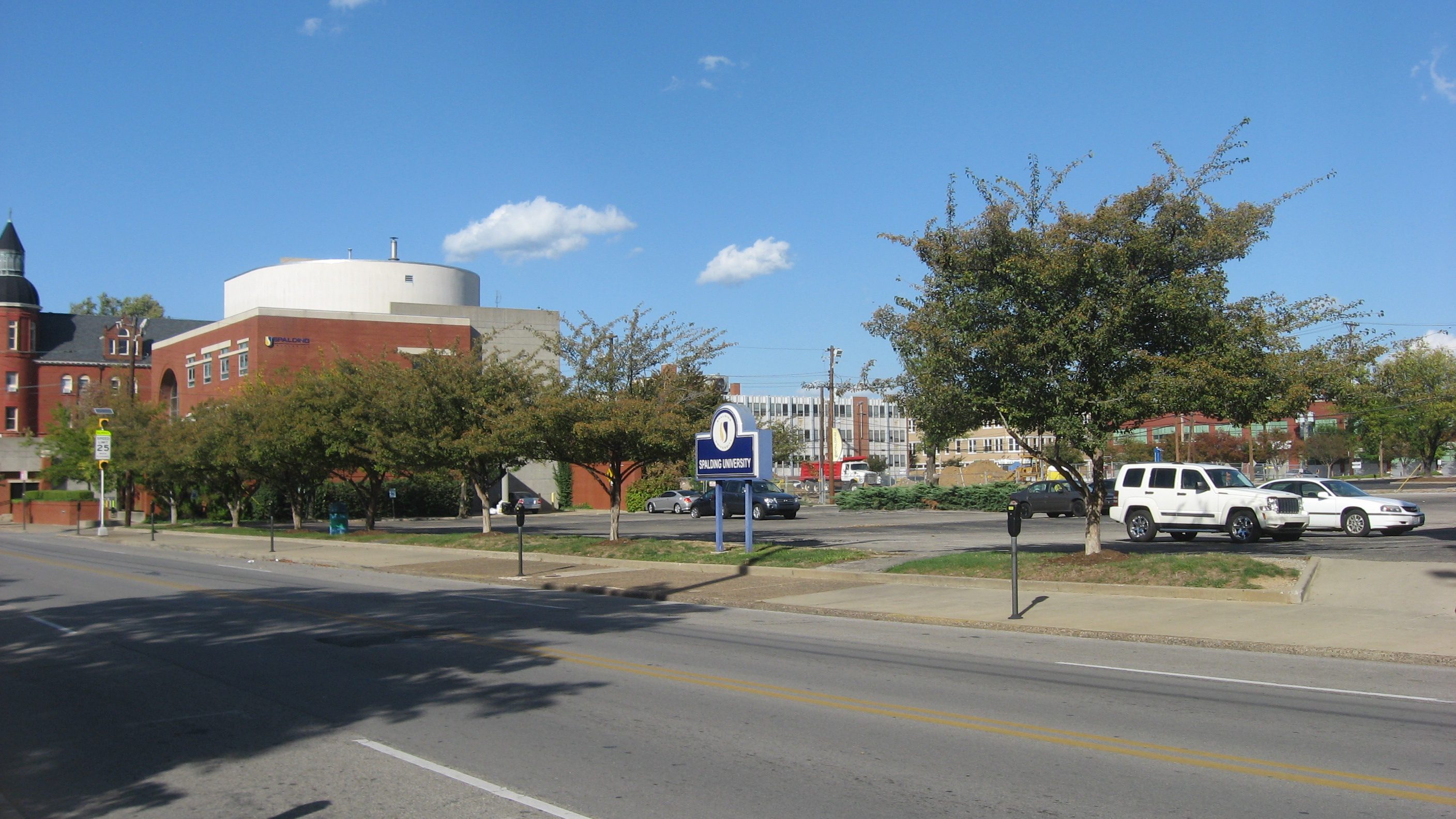 Overview of a Spalding University parking lot on the eastern side of the 900 block of S. Fourth Street in Louisville, Kentucky, United States. The parking lot occupies the site of the Porter-Todd House, which was listed on the National Register of Historic Places in 1979 and has not yet been removed, despite its destruction.